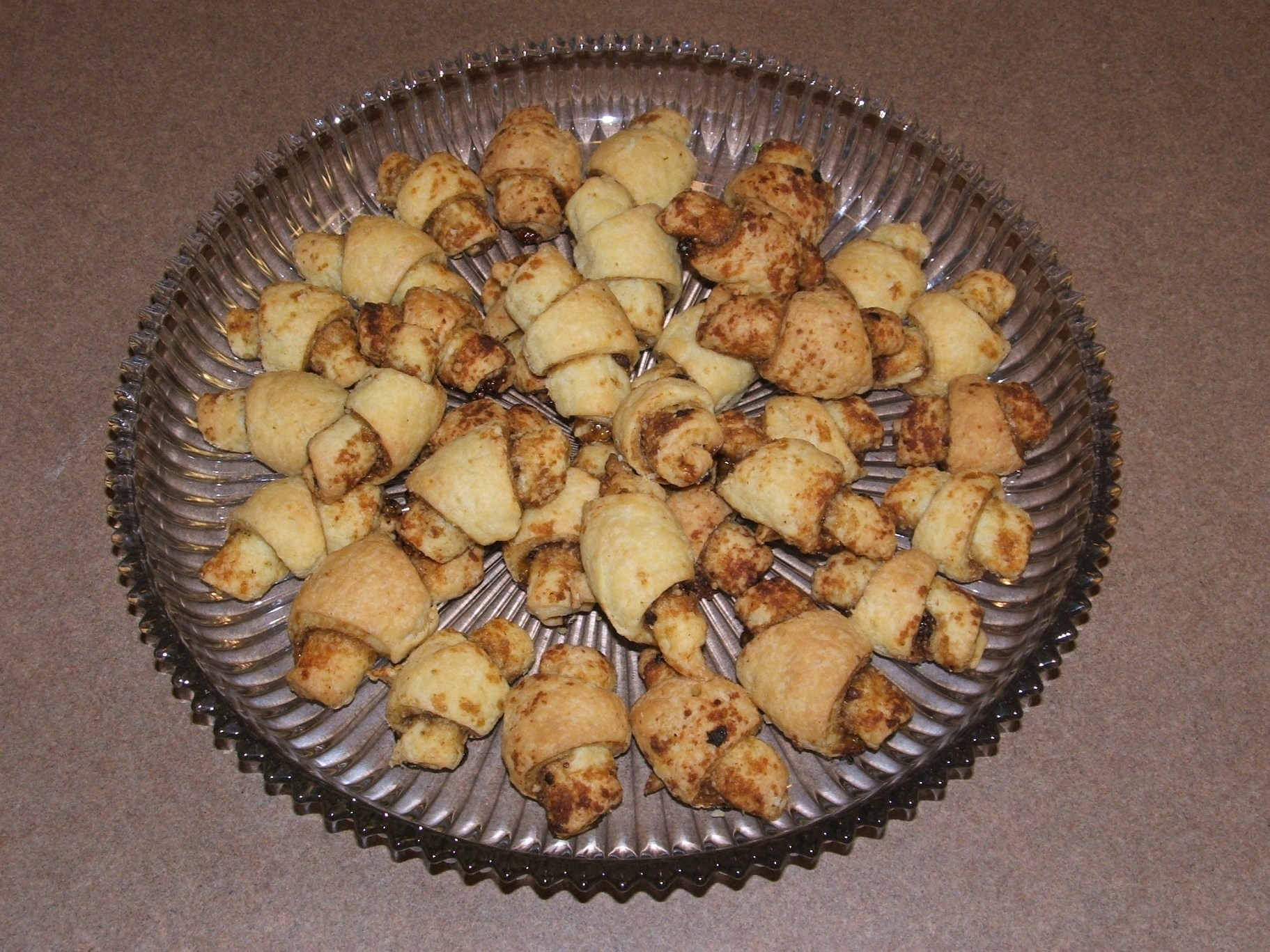 Home cooked rugelach, sour-cream dough with brown-sugar, walnut and raisin filling. A traditional eastern-European Jewish treat.